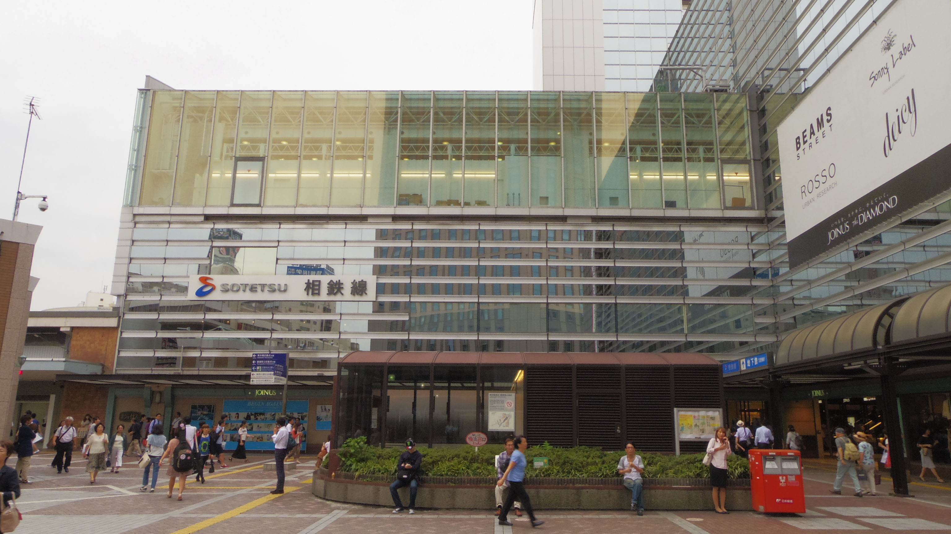 Sagami Railway Yokohama Station.